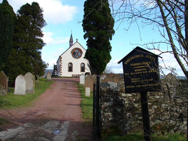 Kirkpatrick Juxta Church near Beattock This beautiful church building is prominent when driving along the A74(M) and is one of these places you 'always meant to visit'.